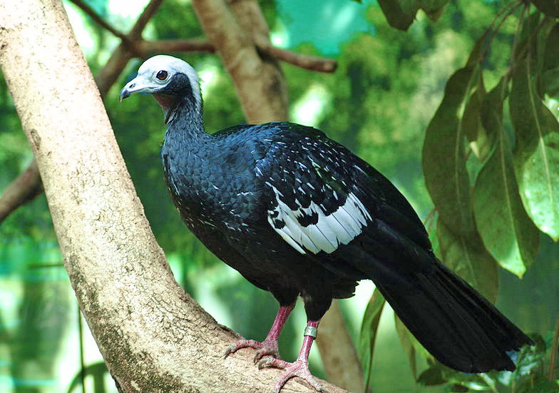 Blue-throated Piping Guan Pipile cumanensis (syn. Aburria cumanensis) in Denver Zoo. Was considered a subspecies of Pipile pipile in the past.